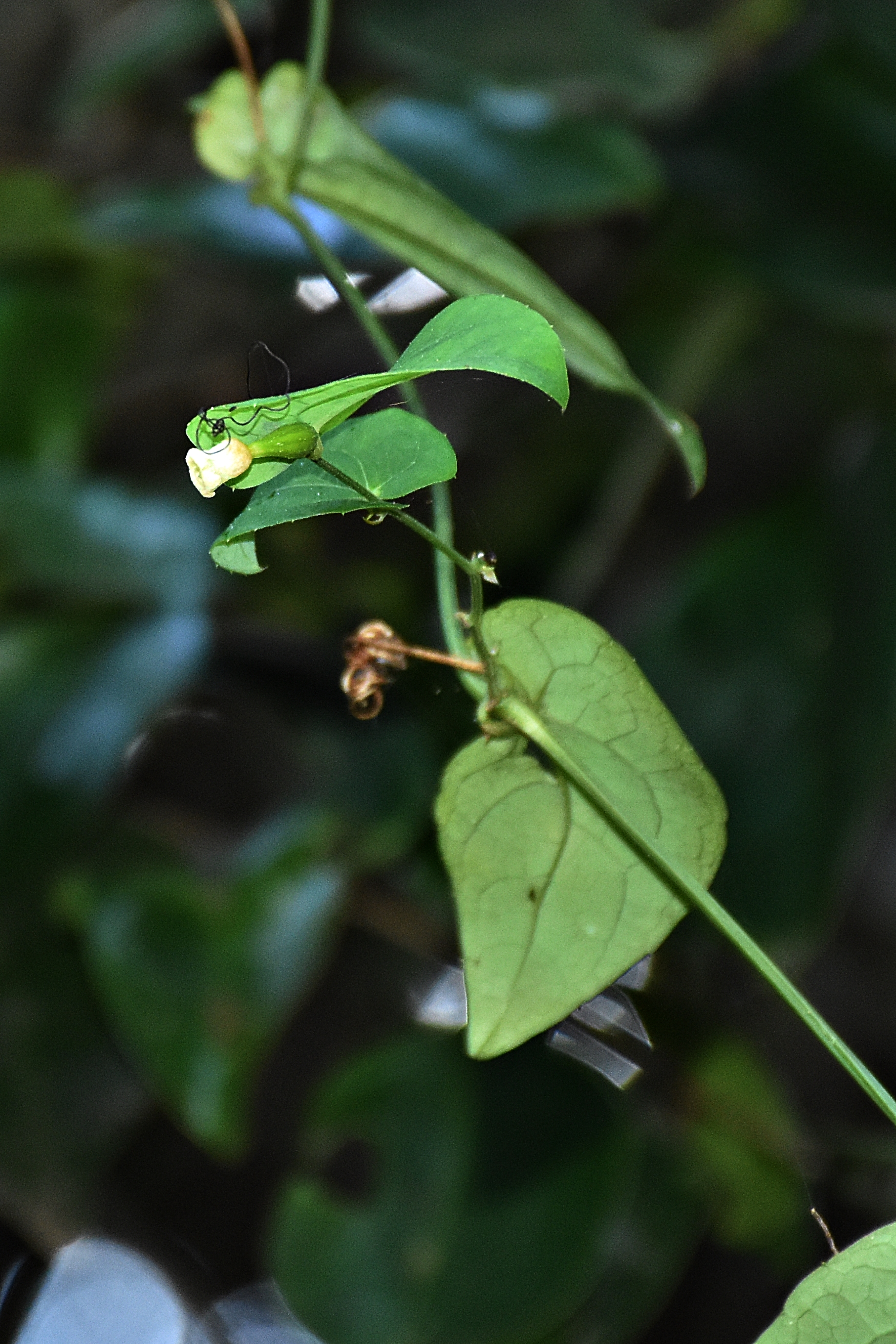 Solena amplexicaulis is a climbing plant of Cucurbitaceae family